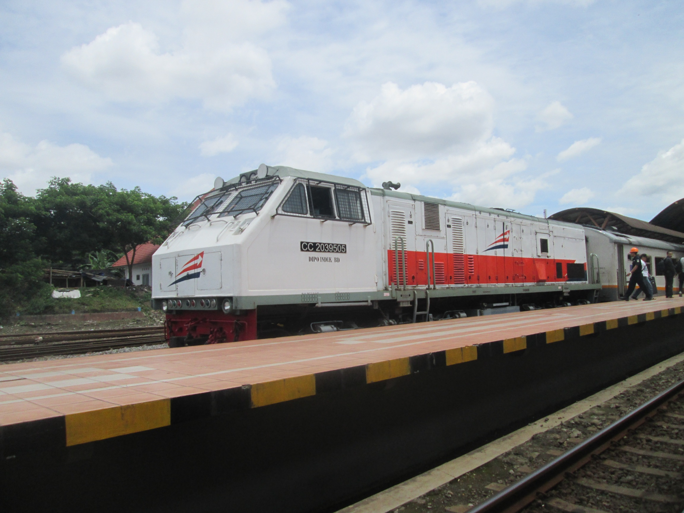 CC 203 95 05 hauled Argo Wilis Train arrived at Tugu Railway Station.